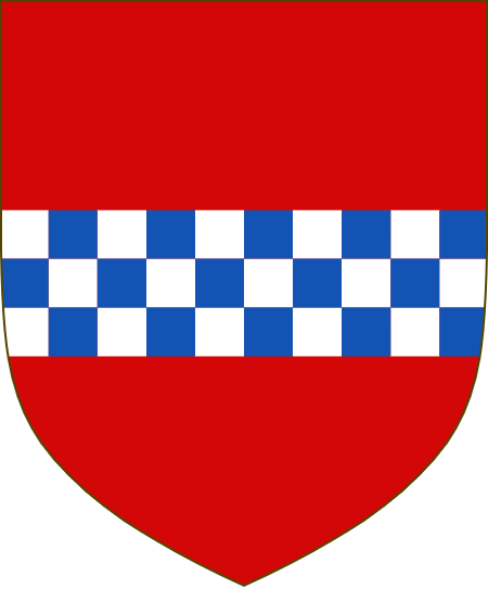 Arms of Lindsay of Evelix: Gules, a fess chequy azure and argent' page 630